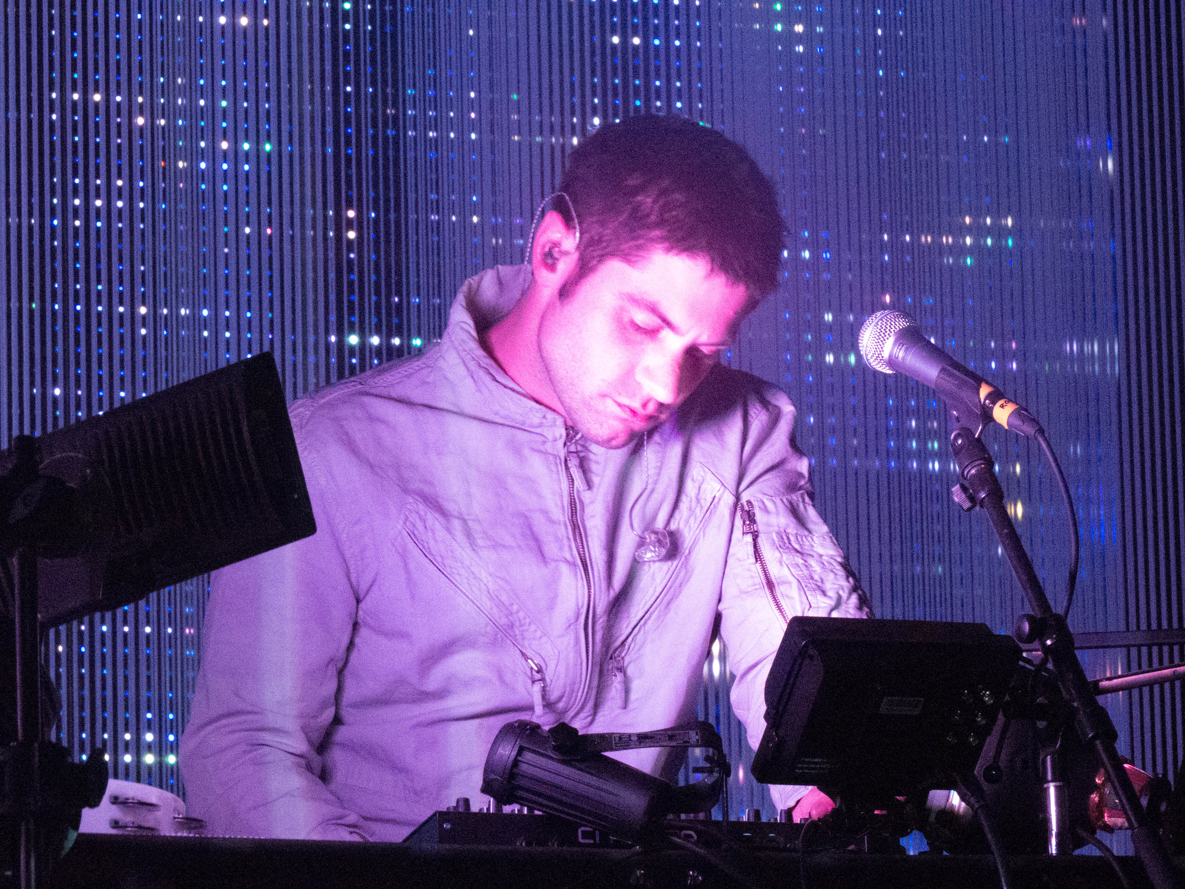 Rob Sheridan with How to Destroy Angels, live at Coachella Valley Music and Arts Festival, 2013.